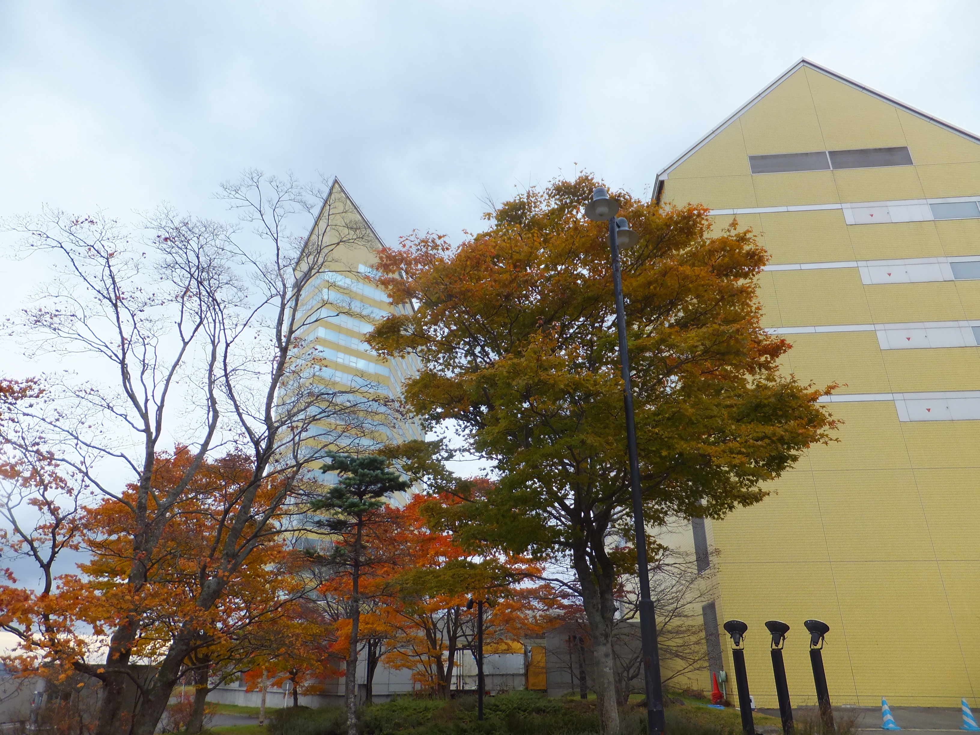 Hotel Appi Grand main building (right) and tower (left) in Hachimantai City, Iwate Prefecture, Japan